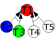 Disjunctive